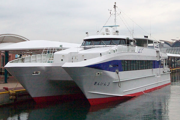 Fukuoka city boat (water bus), Kin-in-3.